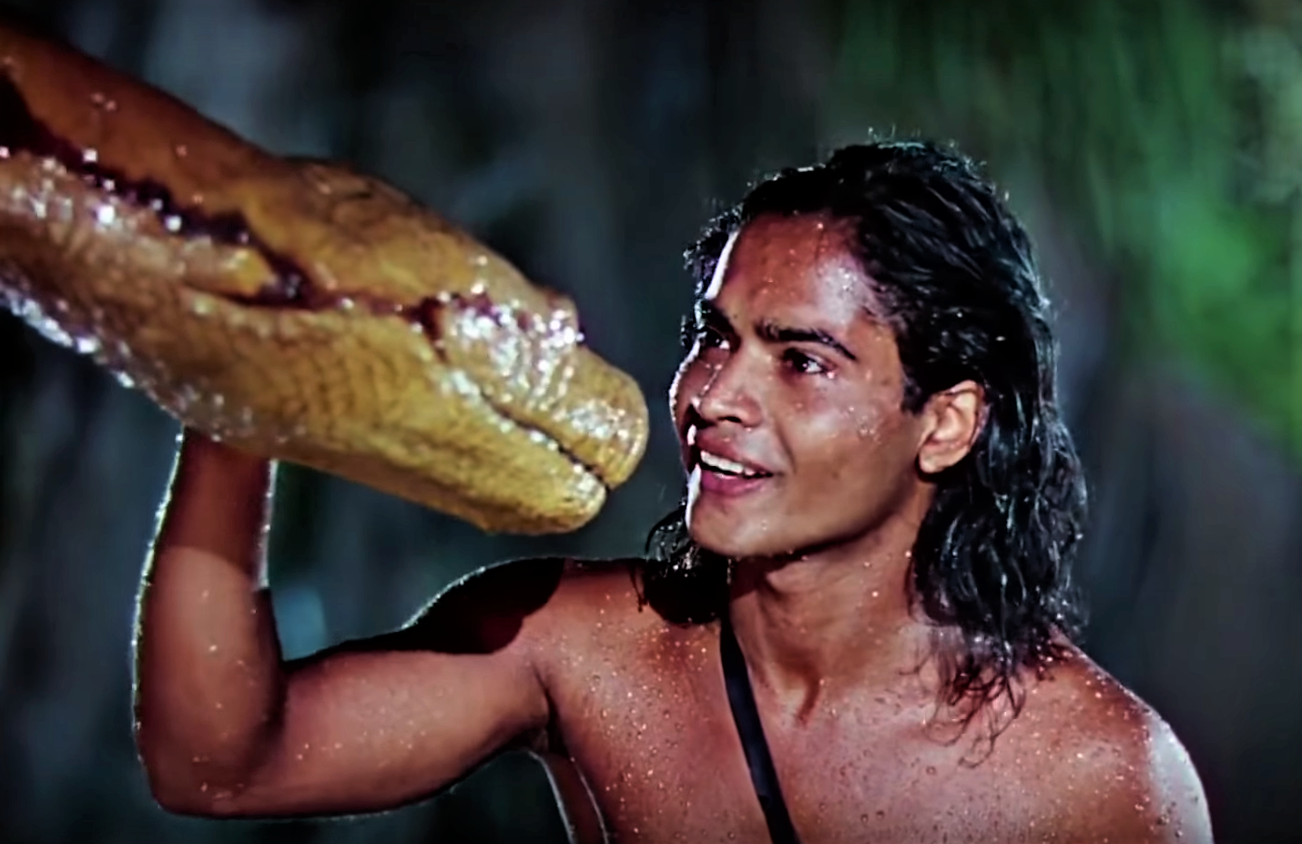 Kaa and Mowgli in Jungle Book - cropped screenshot